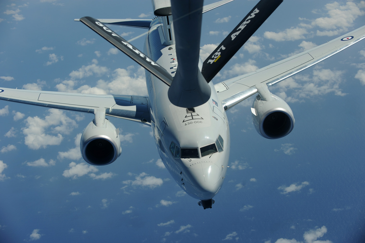 PACIFIC OCEAN (July 28, 2012) A Royal Australian Air Force Wedge tail airborne early warning and control aircraft receives fuel from an U.S. Air Force KC-135 Stratotanker during an aerial refueling mission in support of Rim of the Pacific July 28, 2012 near Hawaii. T